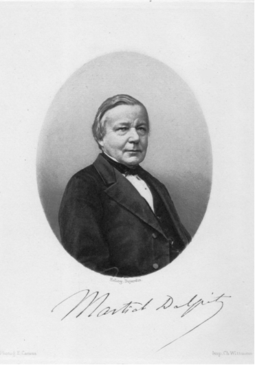 Picture of Martial Delpit in Martial Delpit by P. B. des Valades